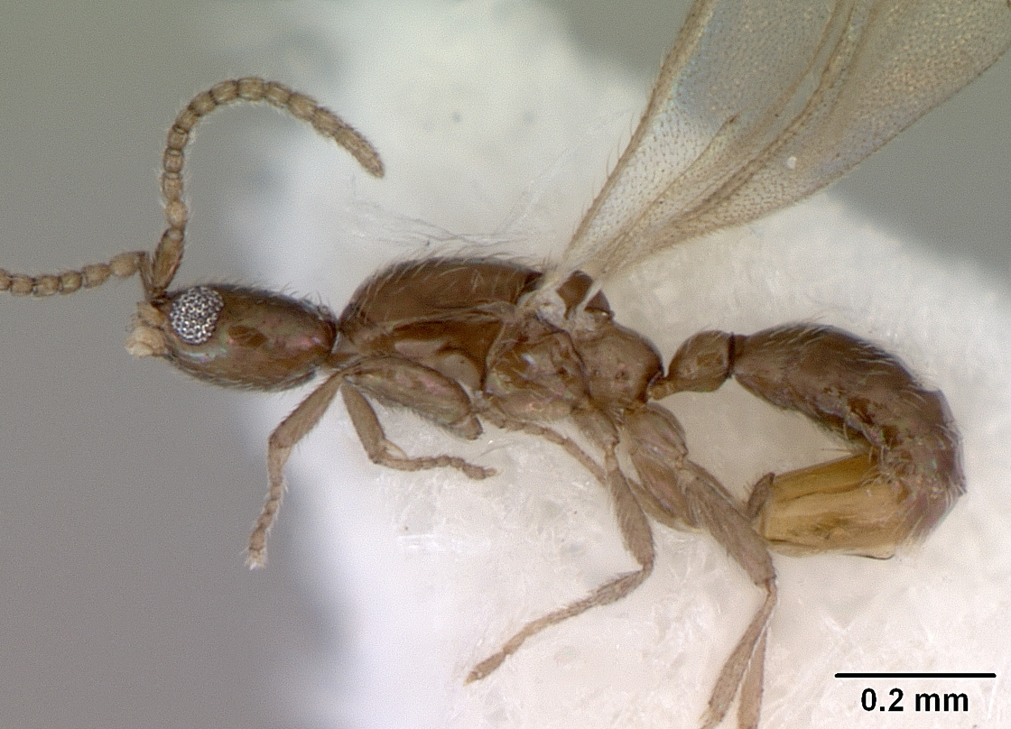 Profile view of ant Leptanilla swani specimen casent0172318.